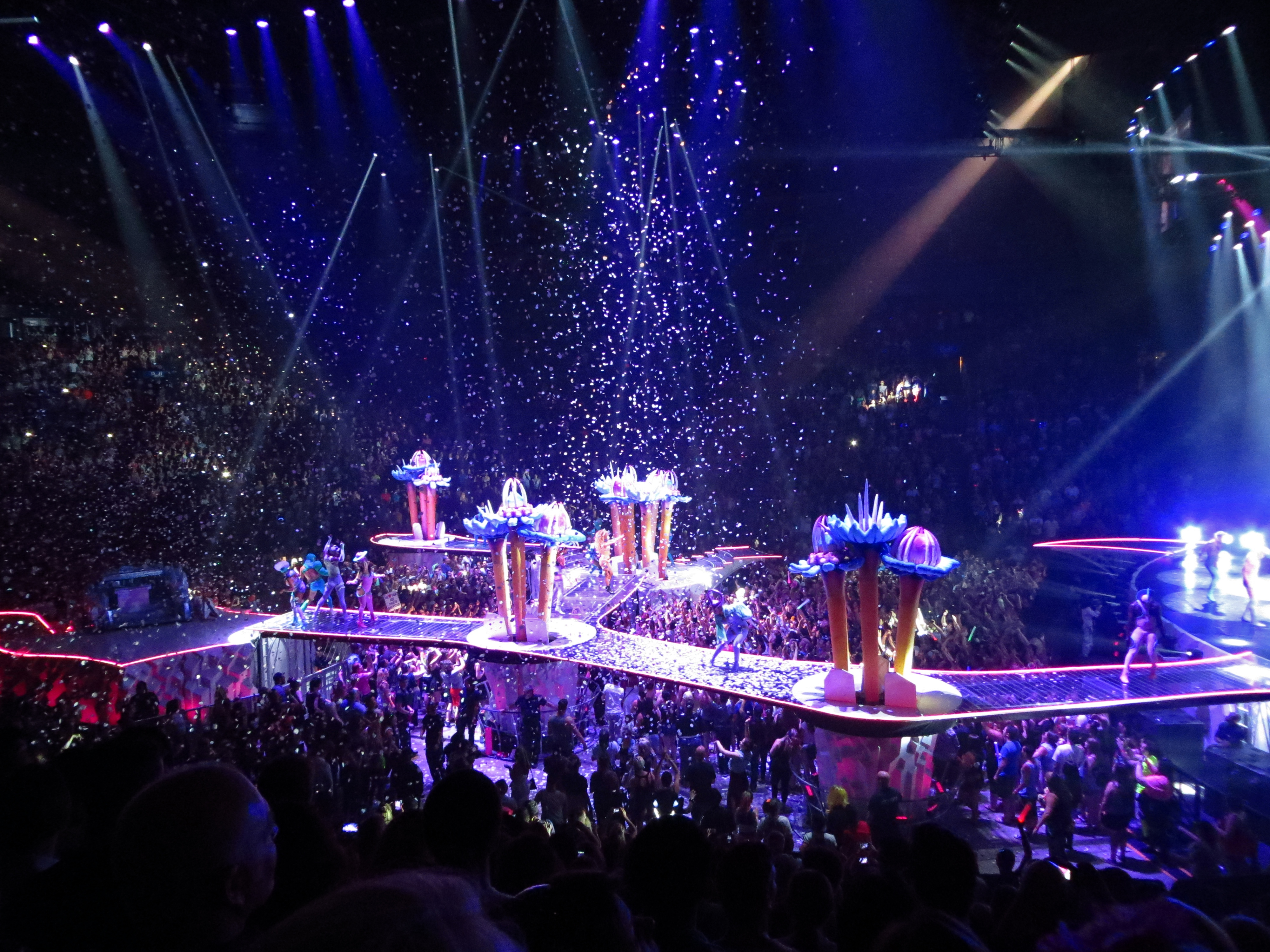 Lady Gaga, ARTPOP Ball Tour, Bell Center, Montréal, 2 July 2014 (24) Gaga performing on ArtRave: The Artpop Ball tour